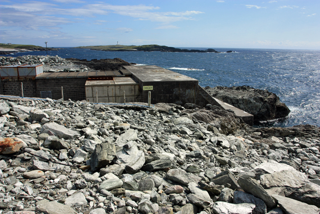 Wave energy power generator This unobtrusive generates 500 kW of "free" electrical energy, for information.